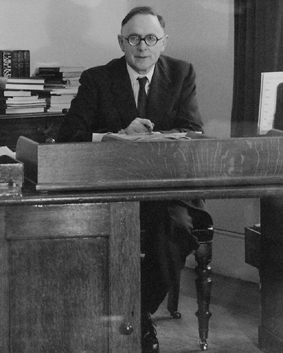 Sir Trenchard Cox, CBE, MA, FSA, FMA. Director and Secretary of the Victoria and Albert Museum, 1956 – 1966.